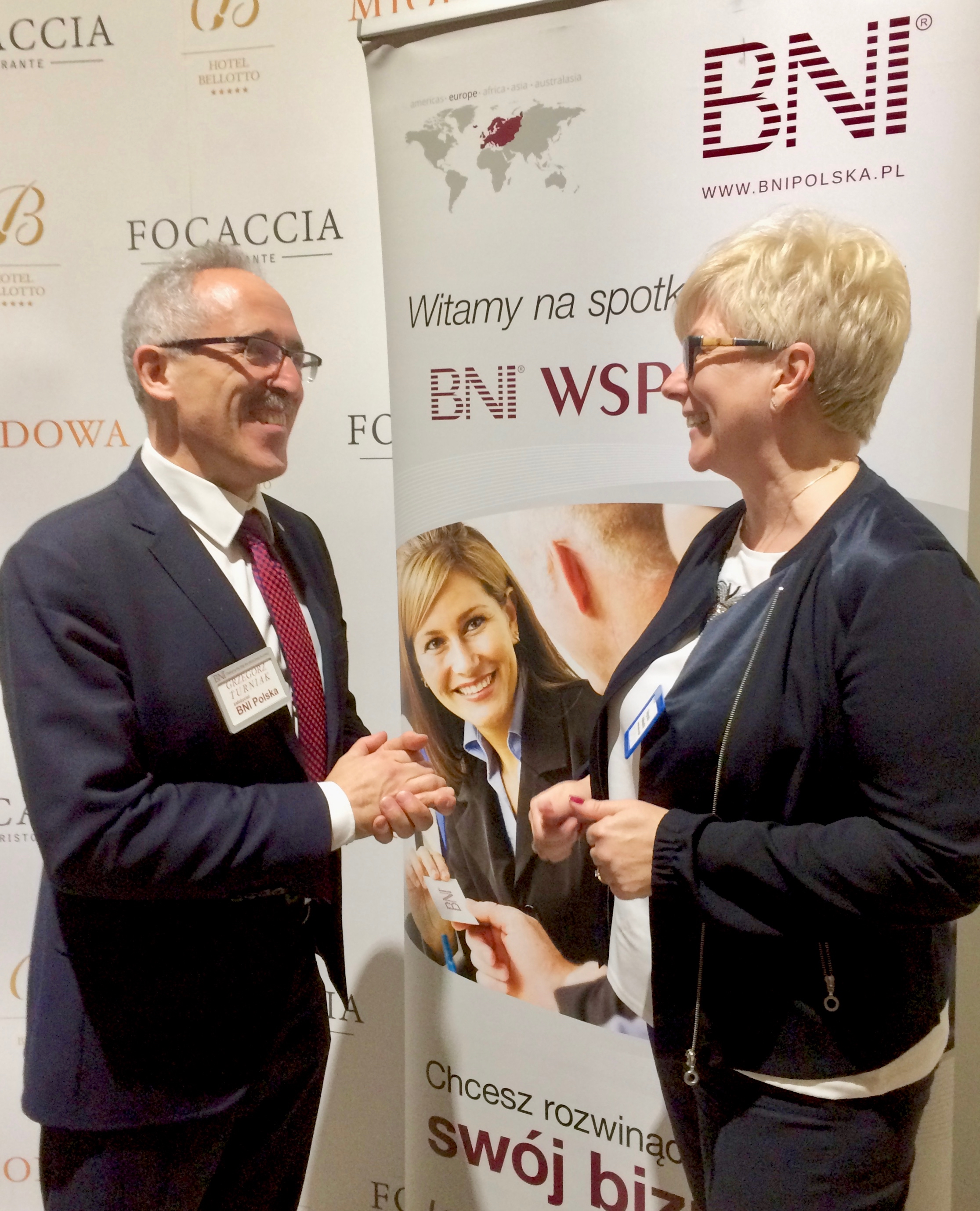 Grzegorz Turniak at a BNI meeting in Warsaw (2018)